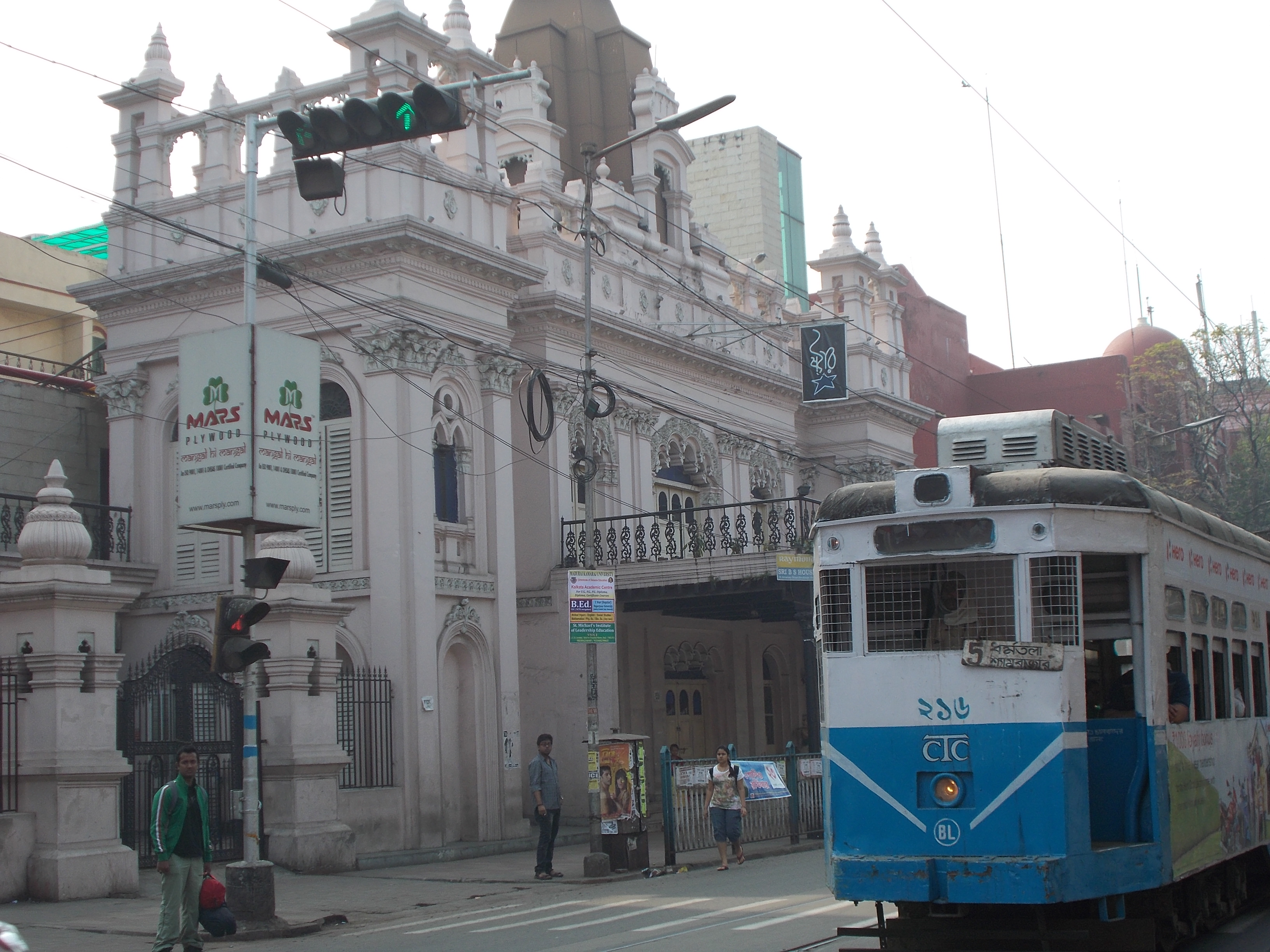 the star theatre at Hatibagar at Kolkata. Now a Multiplex